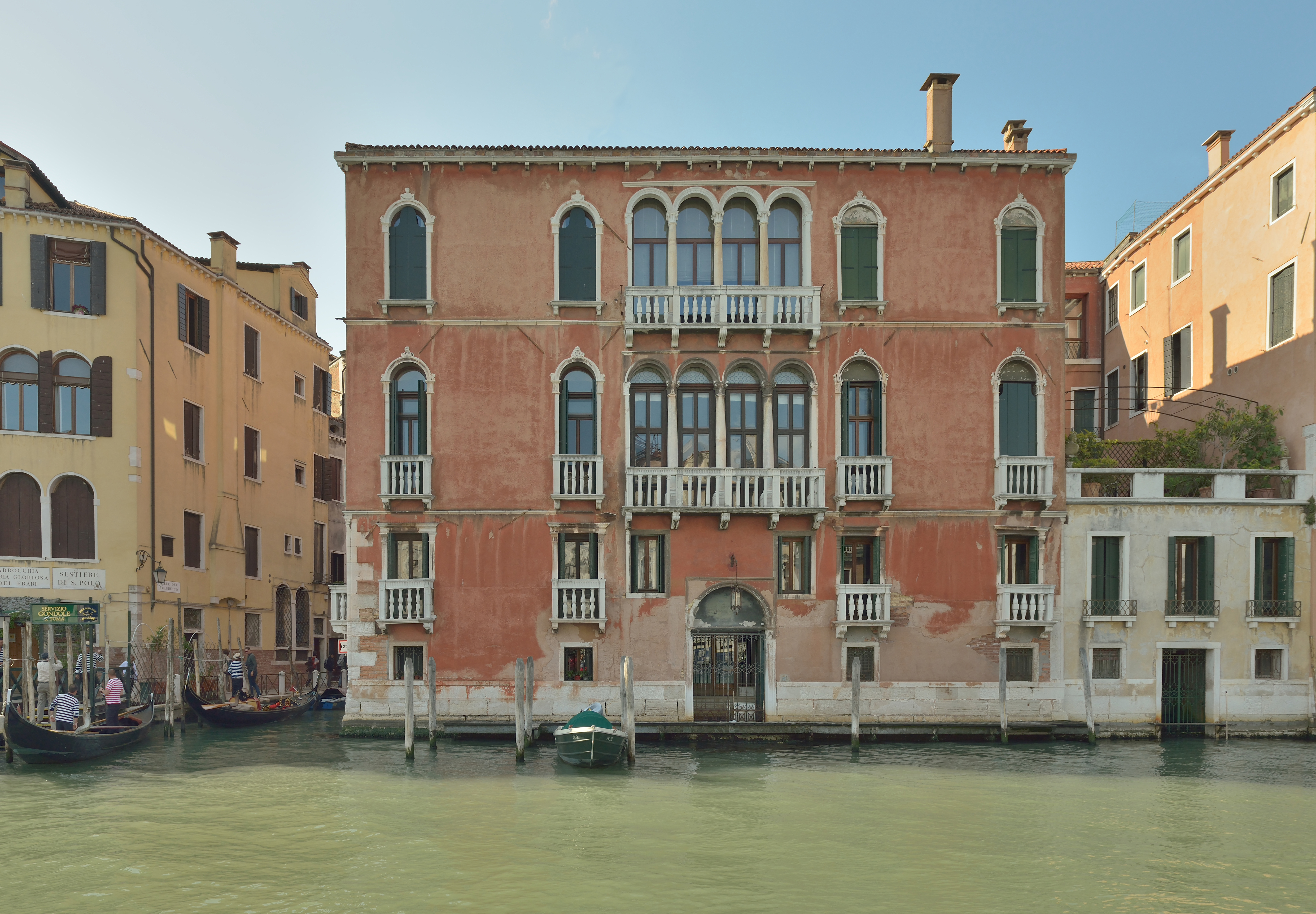 Palazzo Giustinian Persico on the Canal Grande and Rio San Toma in Venice.